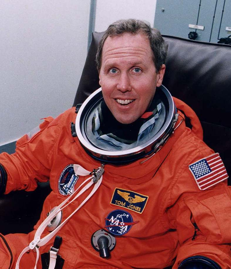 Astronaut Thomas Jones finishes donning his launch/entry suit in the Operations and Checkout Building with assistance from a suit technician.